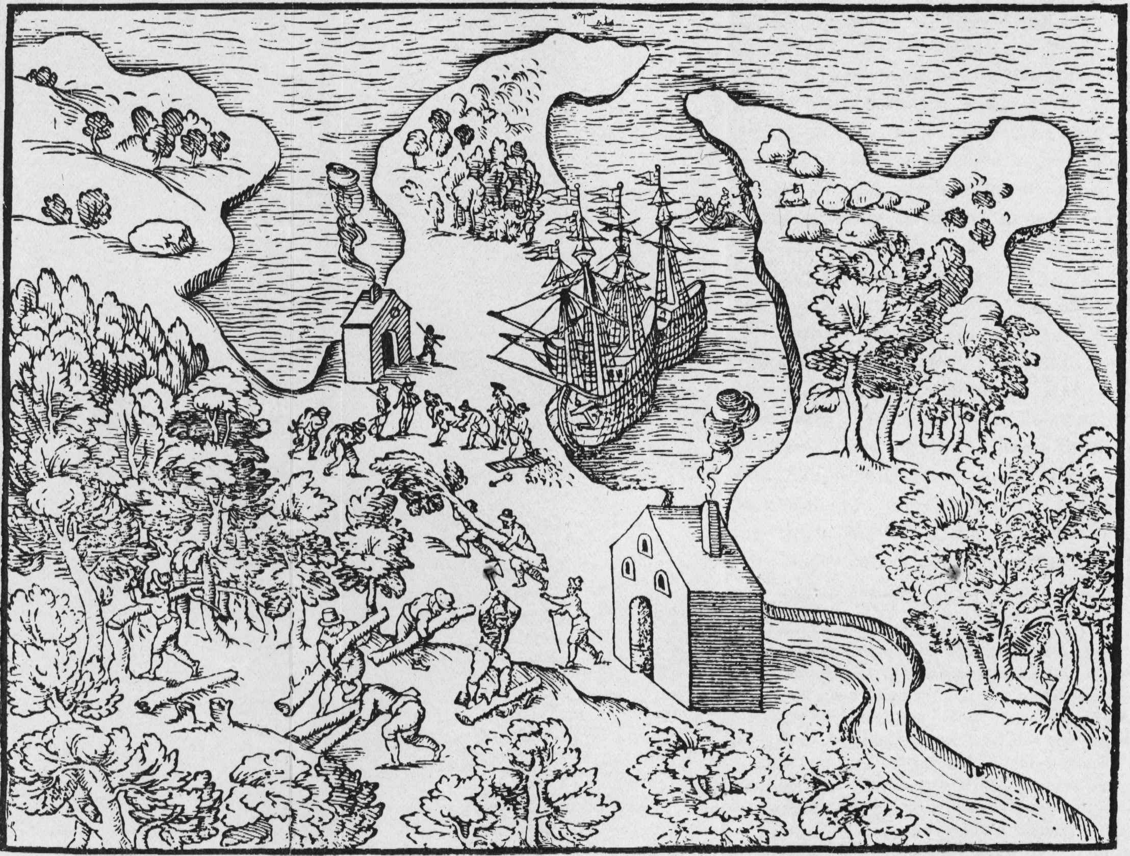 Munck, Jens. [Map of Churchill Harbour 1624] [facisimle]. [1:107,712]. In: C.C.A. Gosch. The Expedition of Captain Jens Munk to Hudson's Bay in Search of a North-West Passage in 1619-20. London: Hakluyt Society, 1897. As reproduced by, Hakluyt Society, Danish Arctic Expeditions, 1605 to 1620, Book II, vol. 97. Munck's wintering place is depicted in this interesting woodcut, which combines pictorial representation of the countryside and of activities, with a stylized map of Churchill harbour. This is the first large-scale map of a Manitoba locale. Munck's two ships are anchored off their wintering place on the west side of the harbour. Two beacons are being stoked with logs cut from the nearby forests, two sailors return from the hunt with their kill over their shoulders, and one unfortunate crew member is being prepared for burial, likely one of the victims of the scurvy. The felling of timber, a continuous necessity, is the beginning of the process which was followed by all later inhabitants, and which denuded the countryside for miles back from the site. The shape of the harbour with its encircling arms is properly, though crudely, represented and its axis is correctly oriented north to south. (Warkentin and Ruggles. Historical Atlas of Manitoba. map 4, p. 24) Original manuscript and map in University Library, Copenhagen, (MS. Additamenta, No. 184)